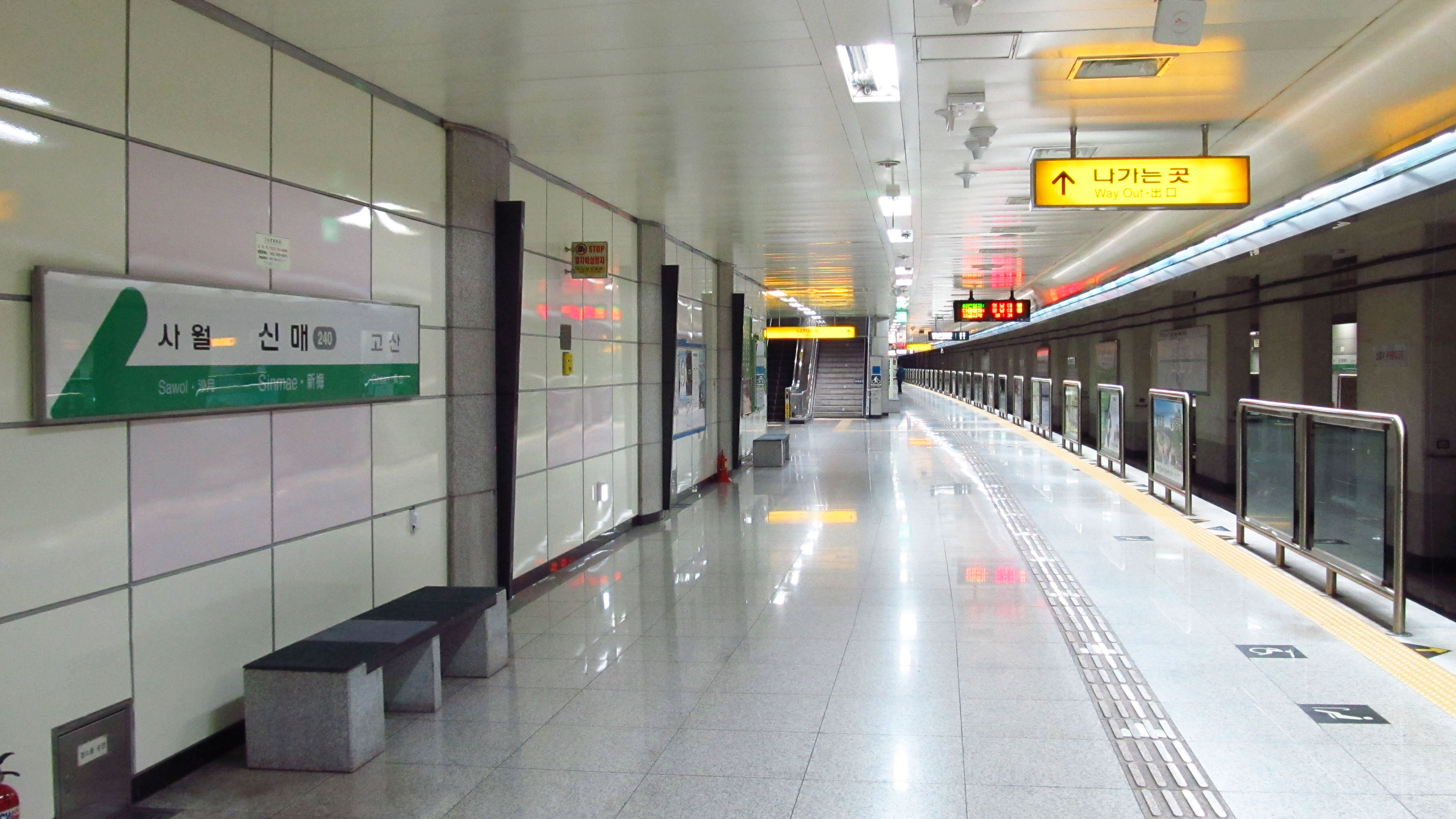 The platform of Sinmae Station on the Daegu Metro Line 2, for Sawol, Yeungnam Univ. Station